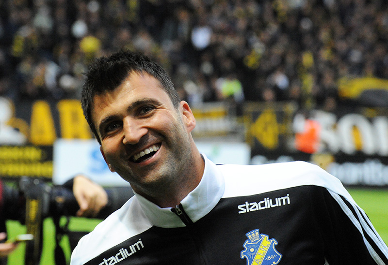 Kyriakos "Kenny" Stamatopoulos